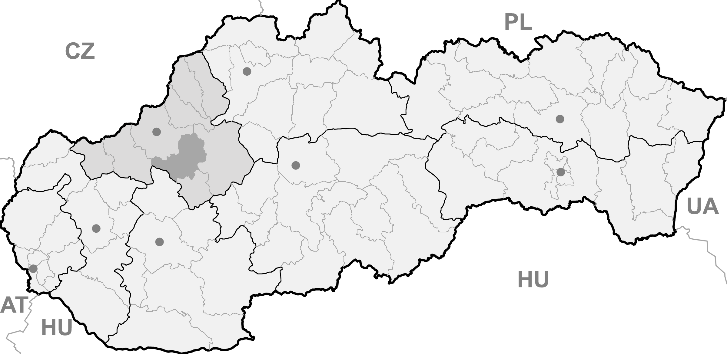 Map of Slovakia, Bánovce nad Bebravou district and Trencin region highlighted